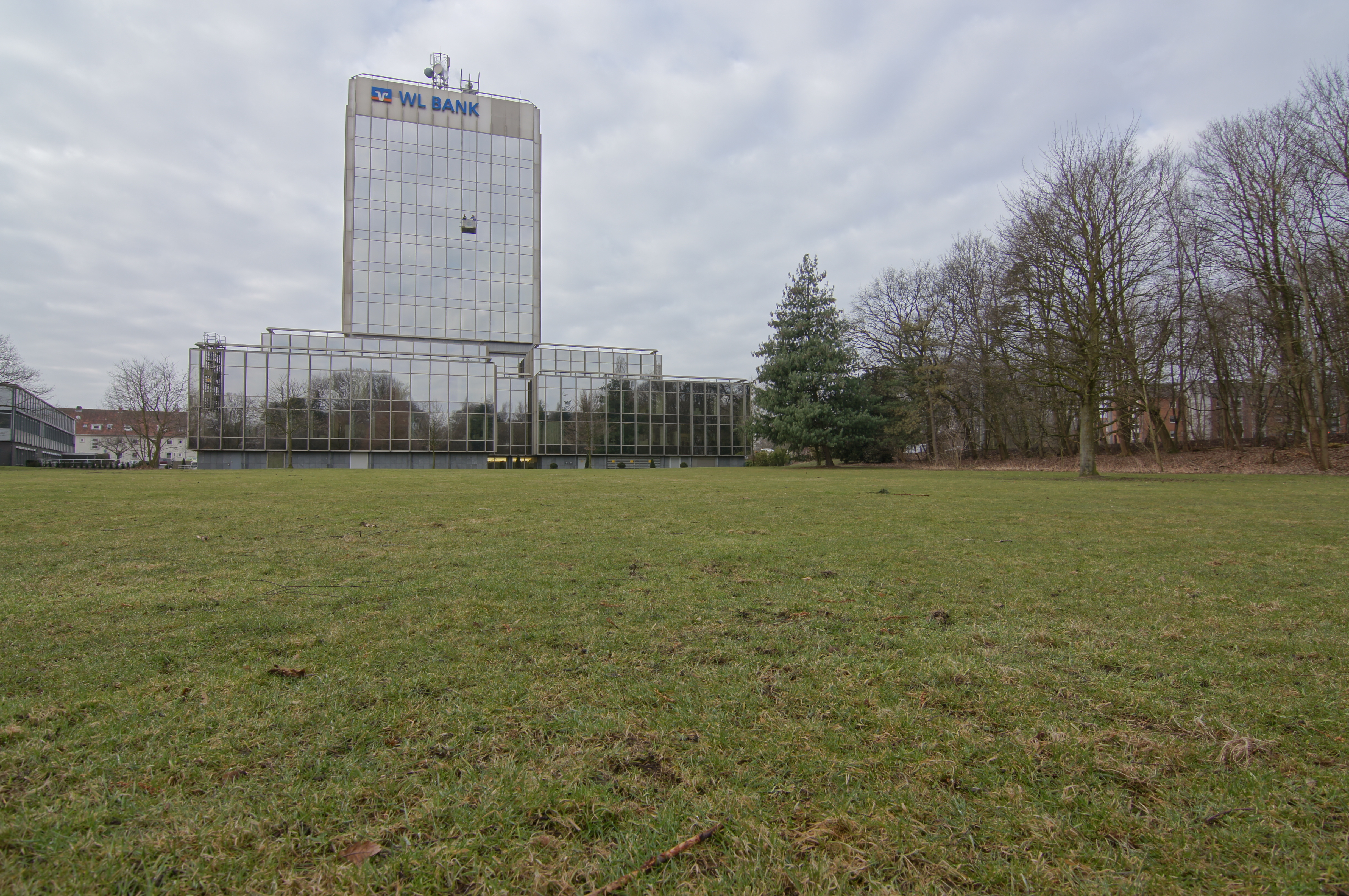 The tower of the WL Bank. Architects: Herbert Remmert, Herta-Maria Witzemann und Wolfgang Stadelmaier.